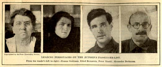 newspaper photo illustration